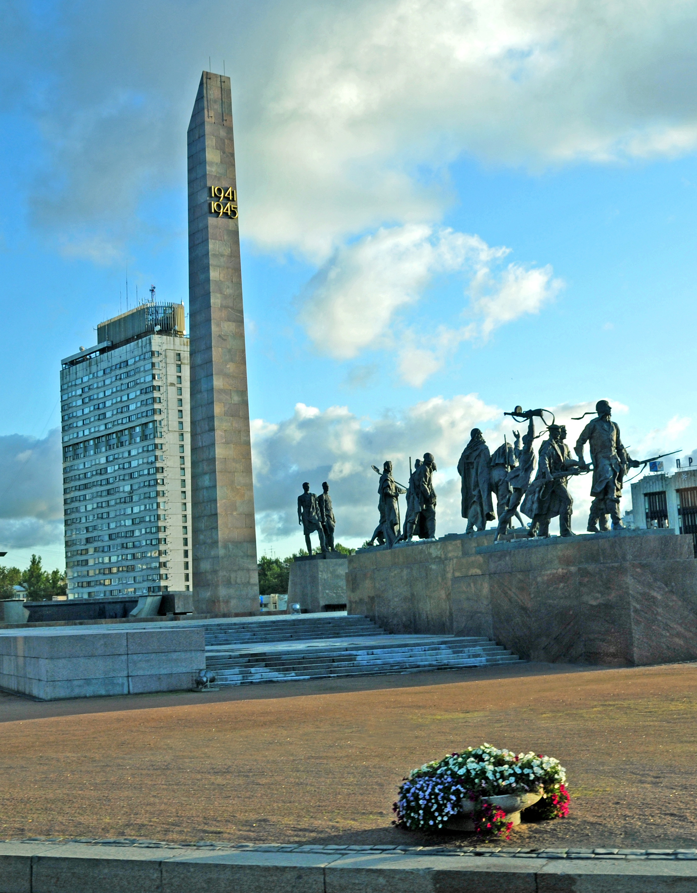 PLEASE, no multi invitations in your comments. Thanks. I AM POSTING MANY DO NOT FEEL YOU HAVE TO COMMENT ON ALL - JUST ENJOY. War Memorial for the Great Patriotic War